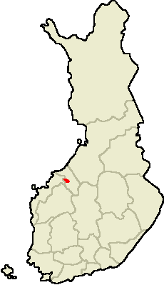 Own work, location of Kaustinen, Finland